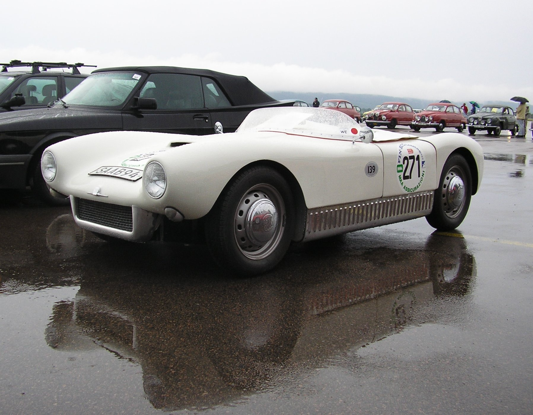 A SAAB Sonett Super Sport, aka SAAB 94, aka Sonett mk1. This has chassis number 1 and is owned by SAAB Automobile AB. Normally it's on display at the SAAB Museum. Photographed at the International SAAB Club Meeting 2006.